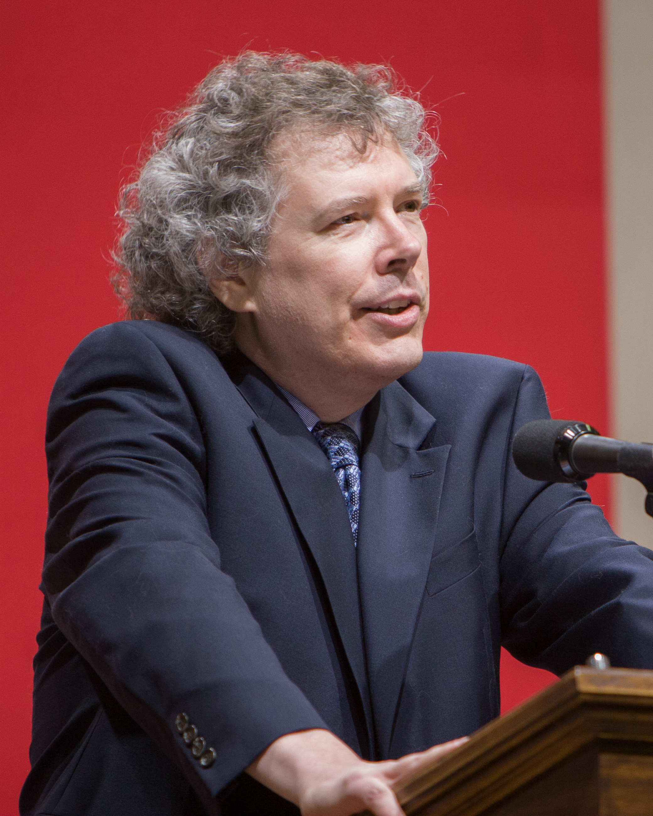 Darrell M. West, Director of the Taubman Center at Brown University in 2006.